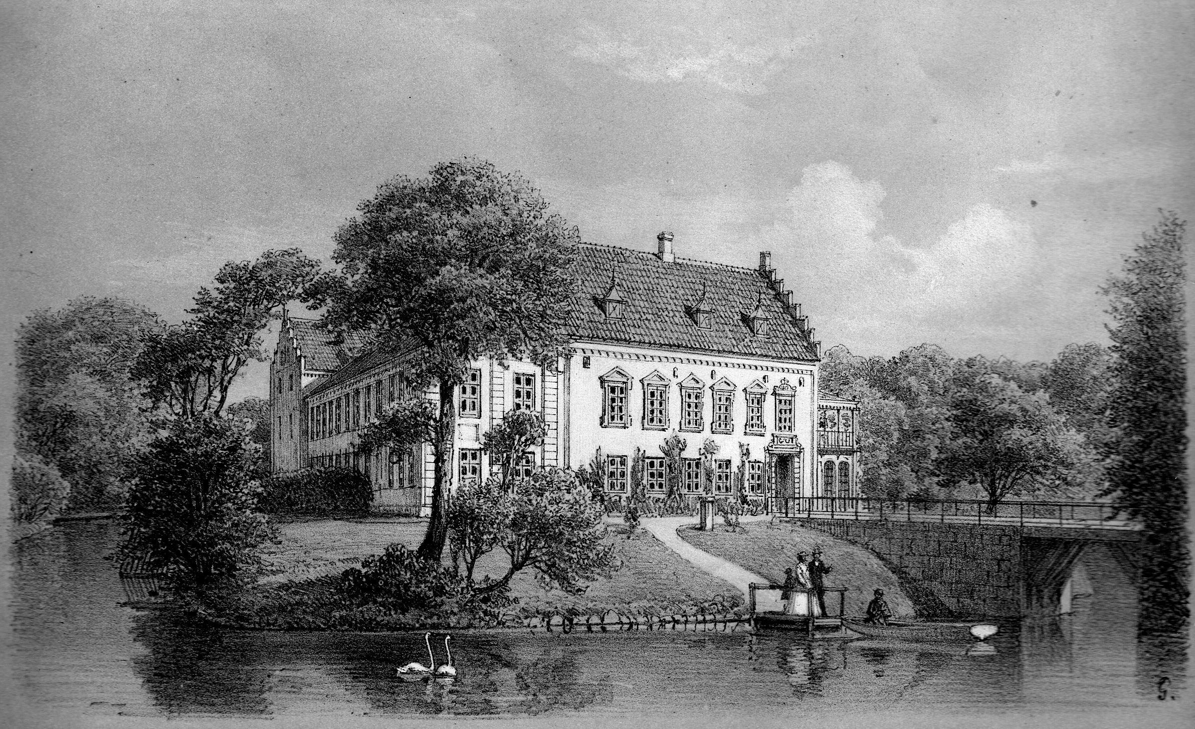 Scanned by myself from a copy of the old book in 2007. The book was graciously lent to me by Det Kongelige Garnisonsbibliotek.